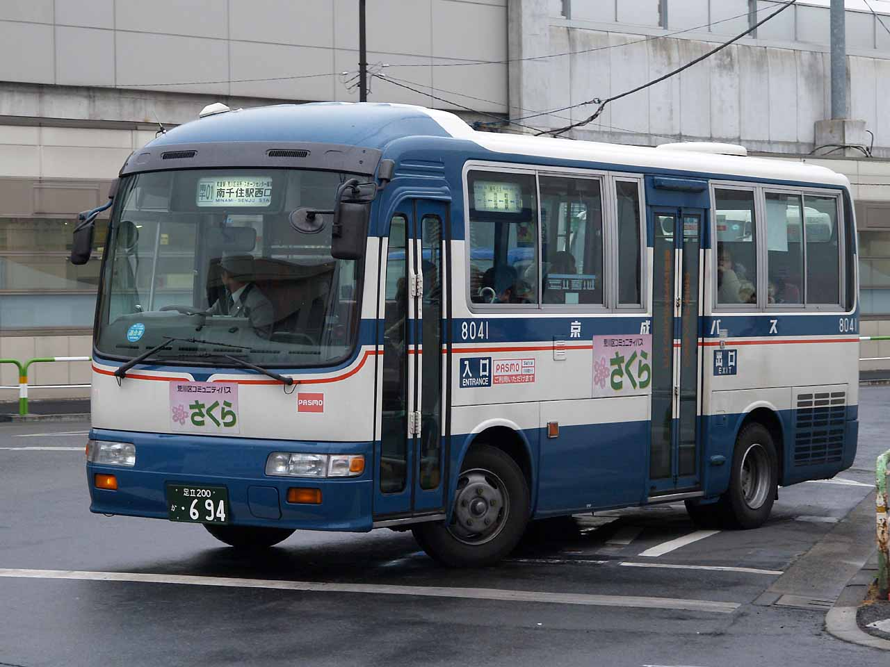 Arakawa ward Community route bus "SAKURA" operated by spare car, converted from Naganuma Dept, Chiba. Model: Hino Liesse KC-RX4JFAA License plate: TKA200KA-694（足立200か・694）ex.CBC200 KA--16（千葉200か・・16） Place: Minami-Senju station west, Arakawa ward, Tokyo Japan